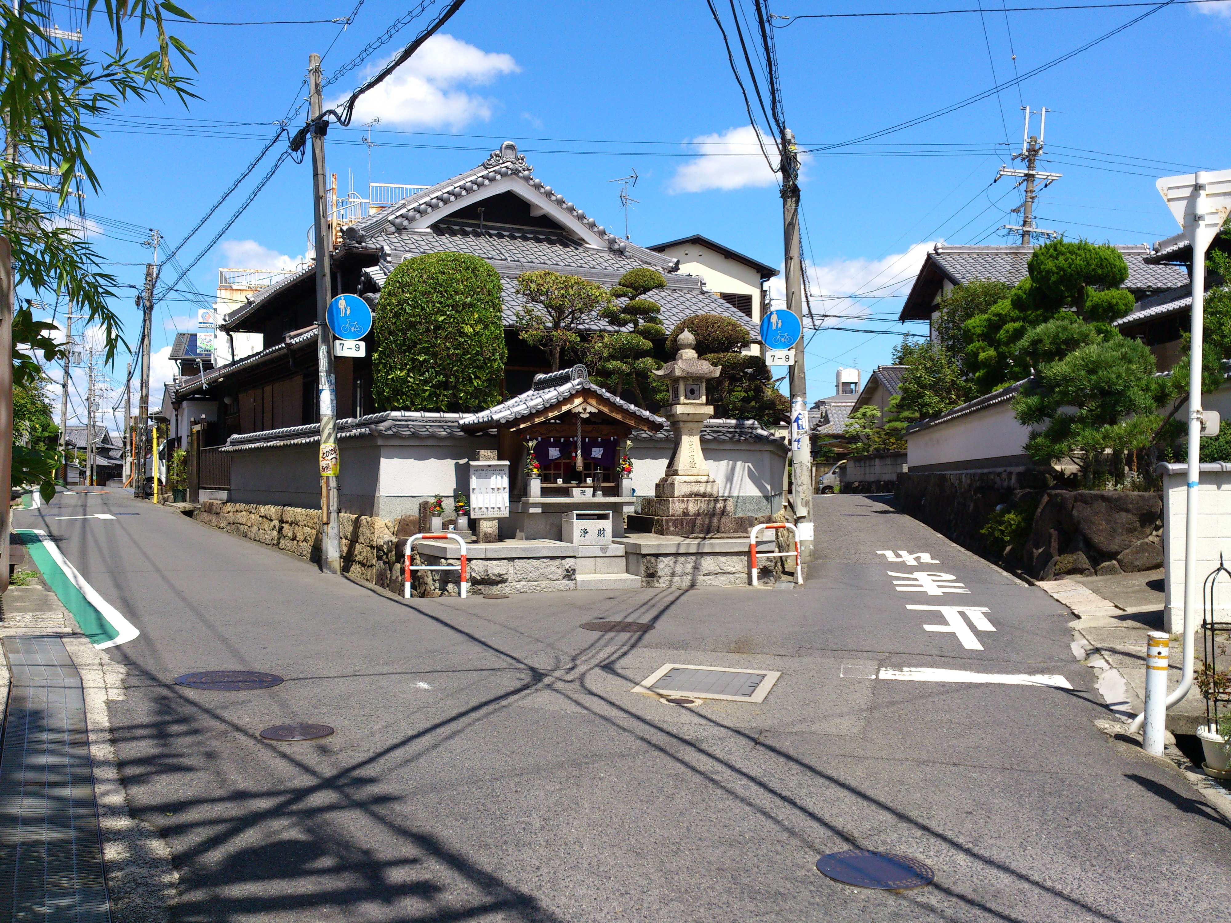 Kusunokichō-nishi, Kawachinagano, Osaka